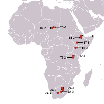 Descriptions en français, then in english. Emplacements – locations : TD — Tchad – Chad TD-1 — Bahr el Ghazal TD-2 — Djourab ET — Étiopie – Etiopia ET-1 — Hadar ET-2 — Herto ET-3 — Omo KE — Kenya – Kenya KE-1 — Lake Turkana TZ — Tanzanie – Tanzania TZ-1 — Olduvai TZ-2 — Laetoli ZA — Afrique du SUd – South Africa ZA-1 — Sterkfontein ZA-2 — Swartkrans ZA-3 — Kromdraai ZA-4 — Taung